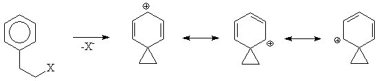 Neighbouring group participation